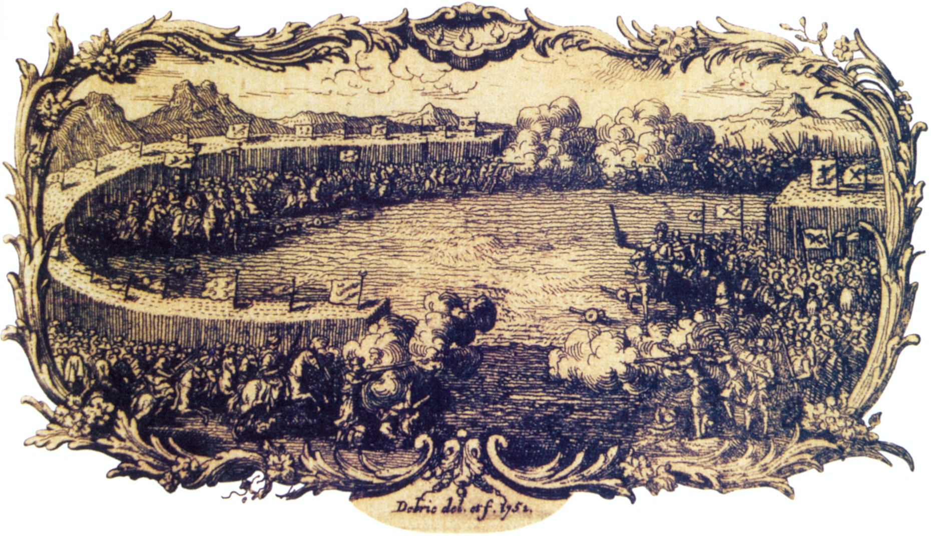 The Battle of Alcácer Quibir, 1578.